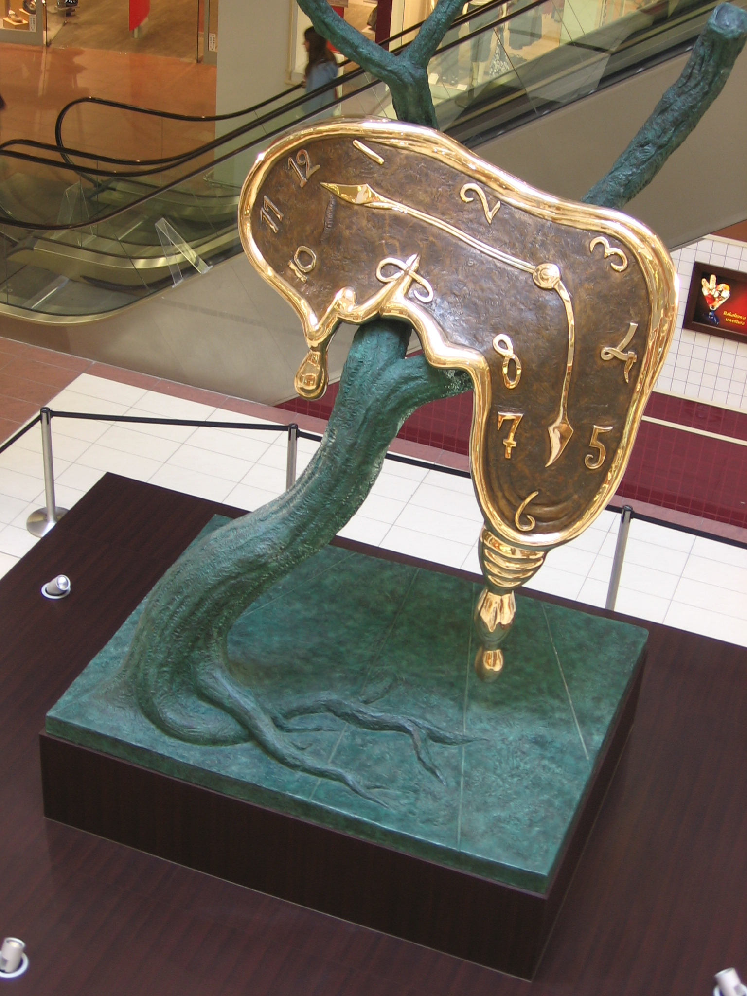 Salvador Dali: "Profile of Time". The sculpture set up 2008-2012 in the public patio of "Arkady Wrocławskie" shopping centre, Wrocław, since April 2012 on the street near the main entrance to Sky Tower in Wrocław